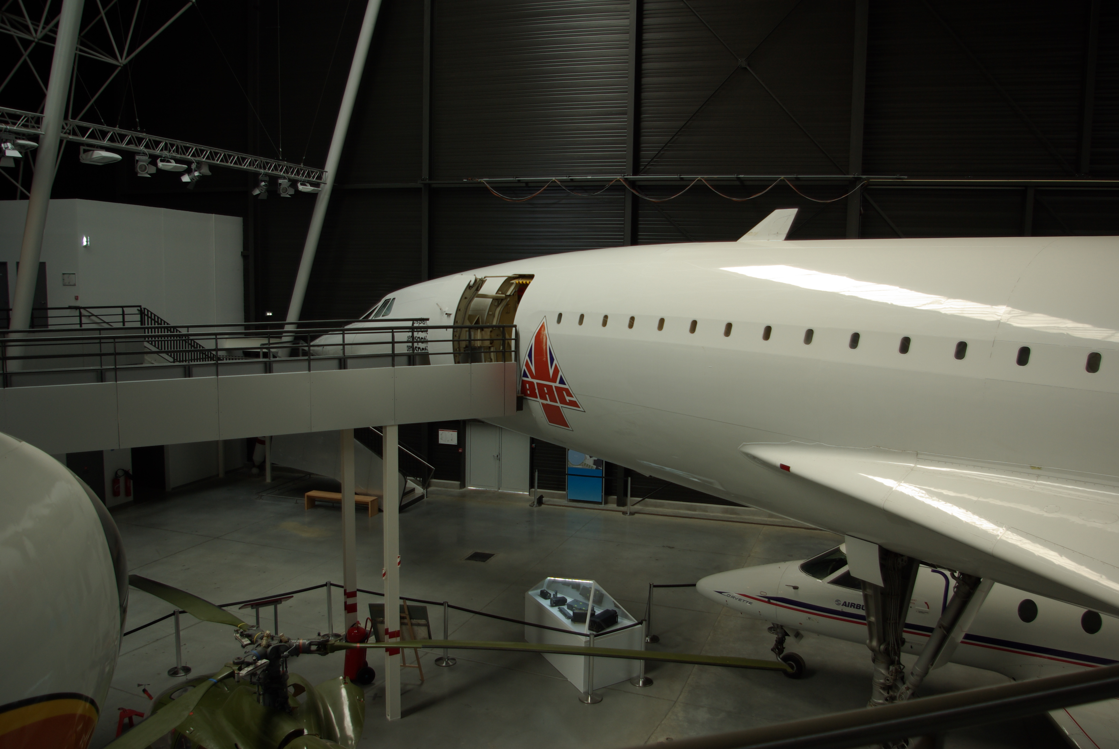 Footbridge to visit the cabin of the Concorde F-WTSB.